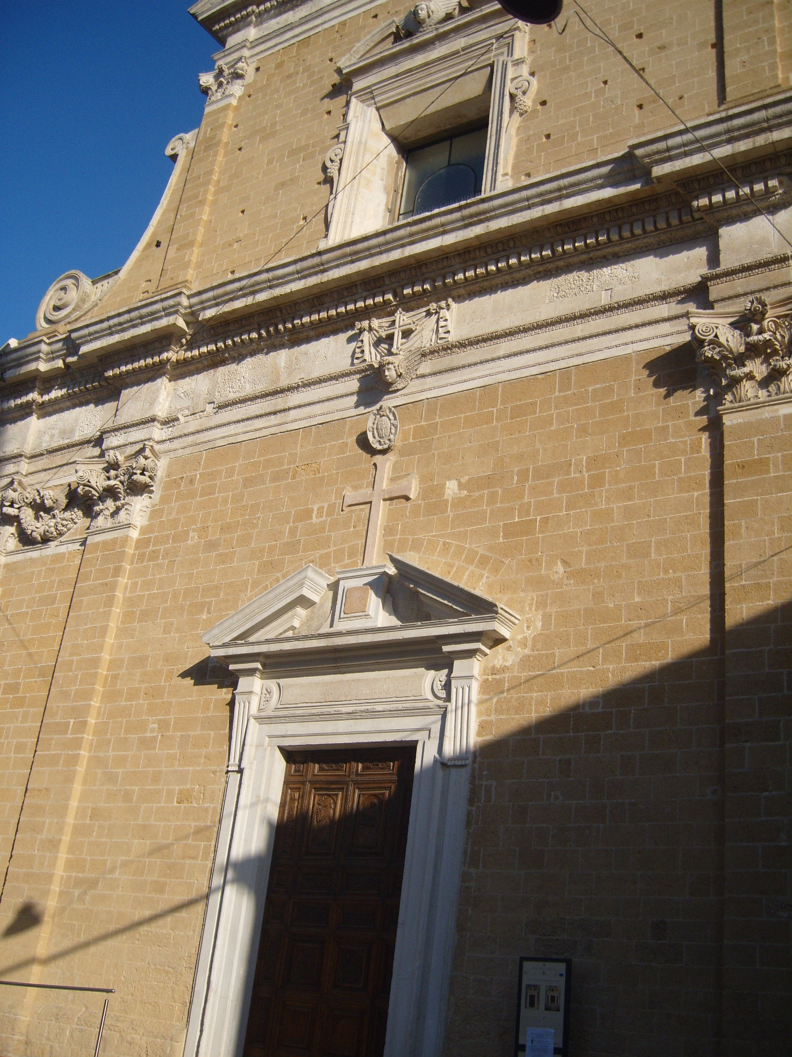 Santa Maria degli Angeli church in Brindisi